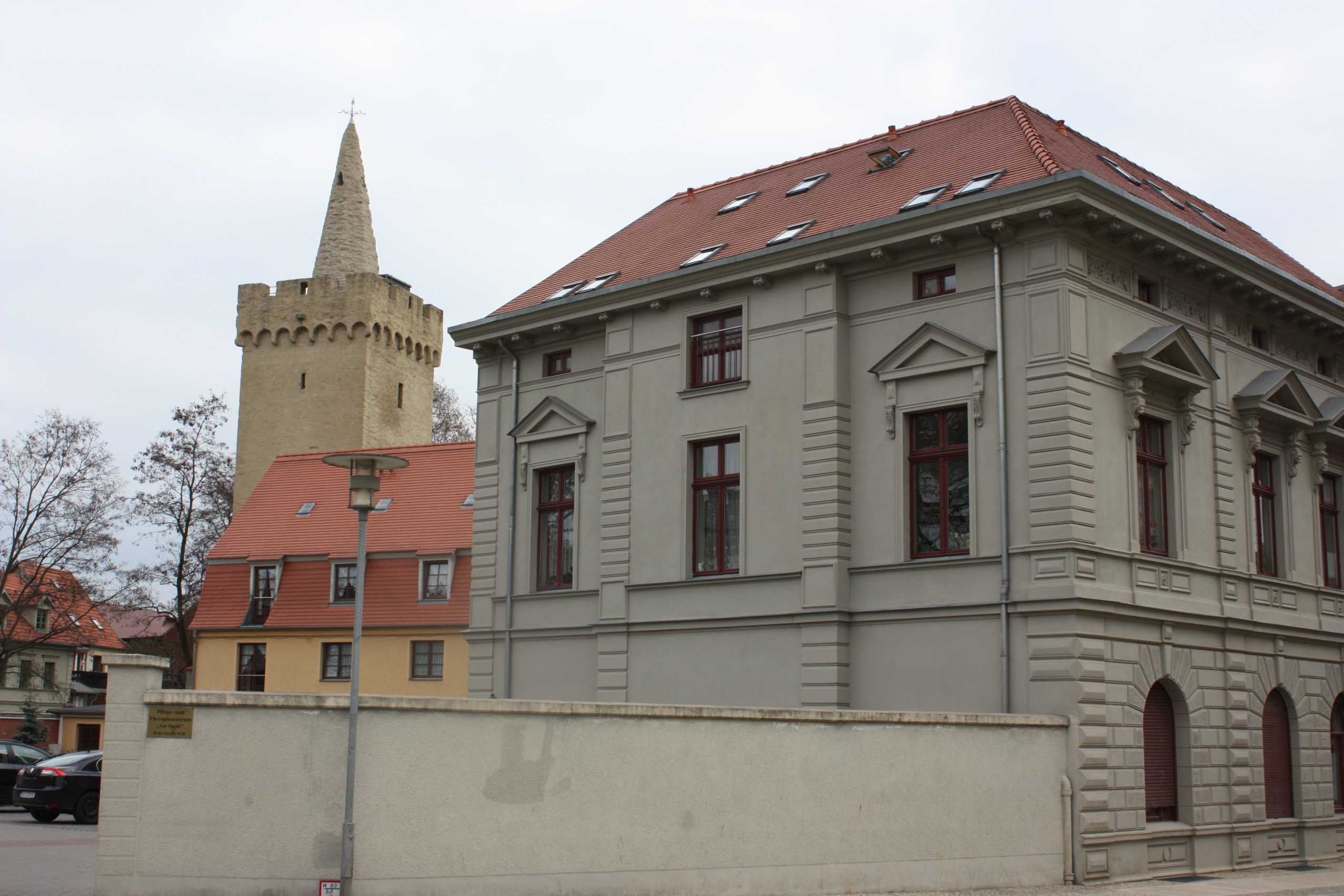 Aschersleben, house 9 Hohe Straße, in the background you see the Rabenturm